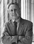 JackLDavis